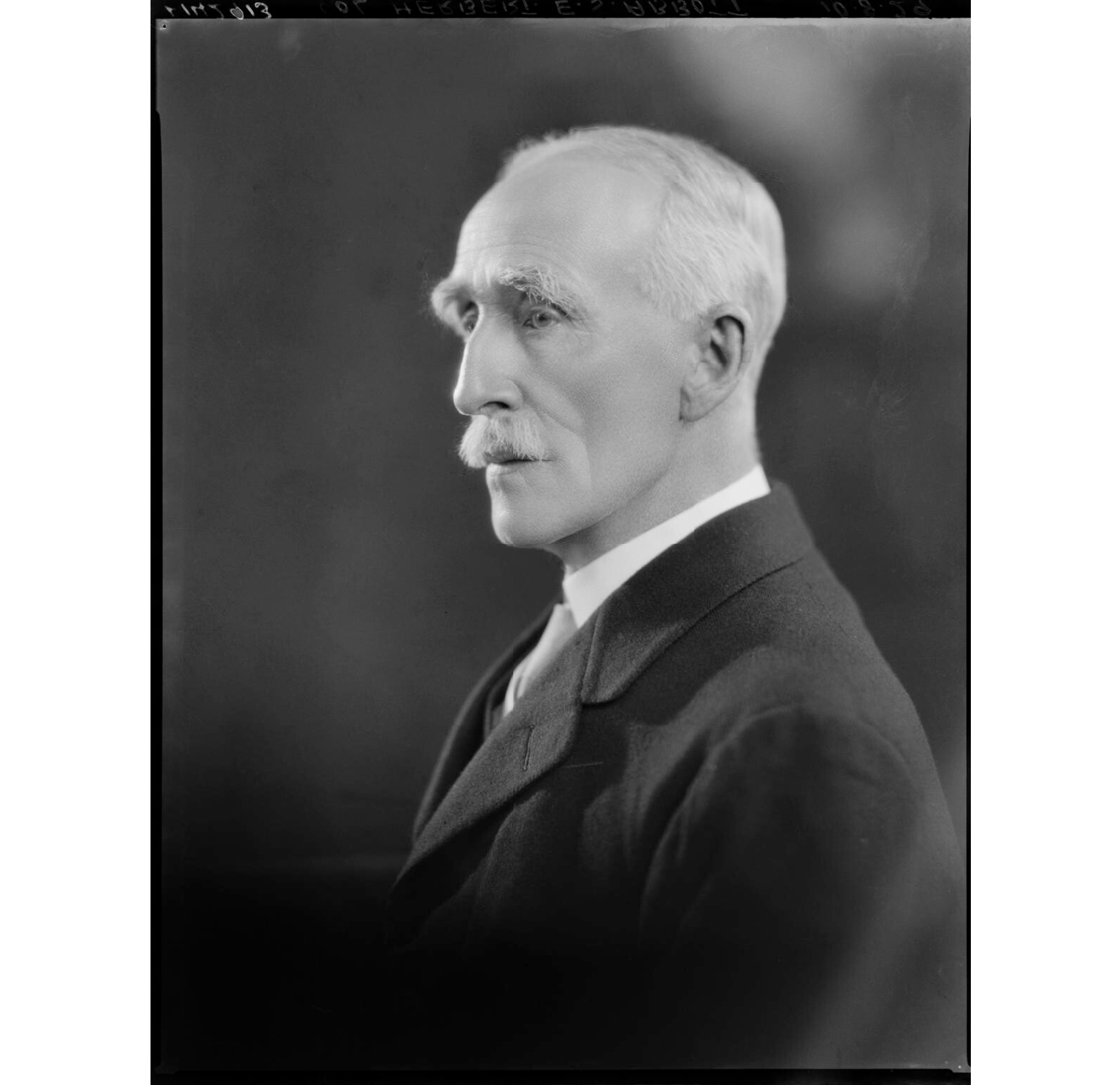 Colonel Herbert Edward Stacy Abbott (1855-1939)